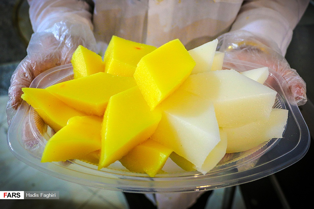 TarHalva Shirazi